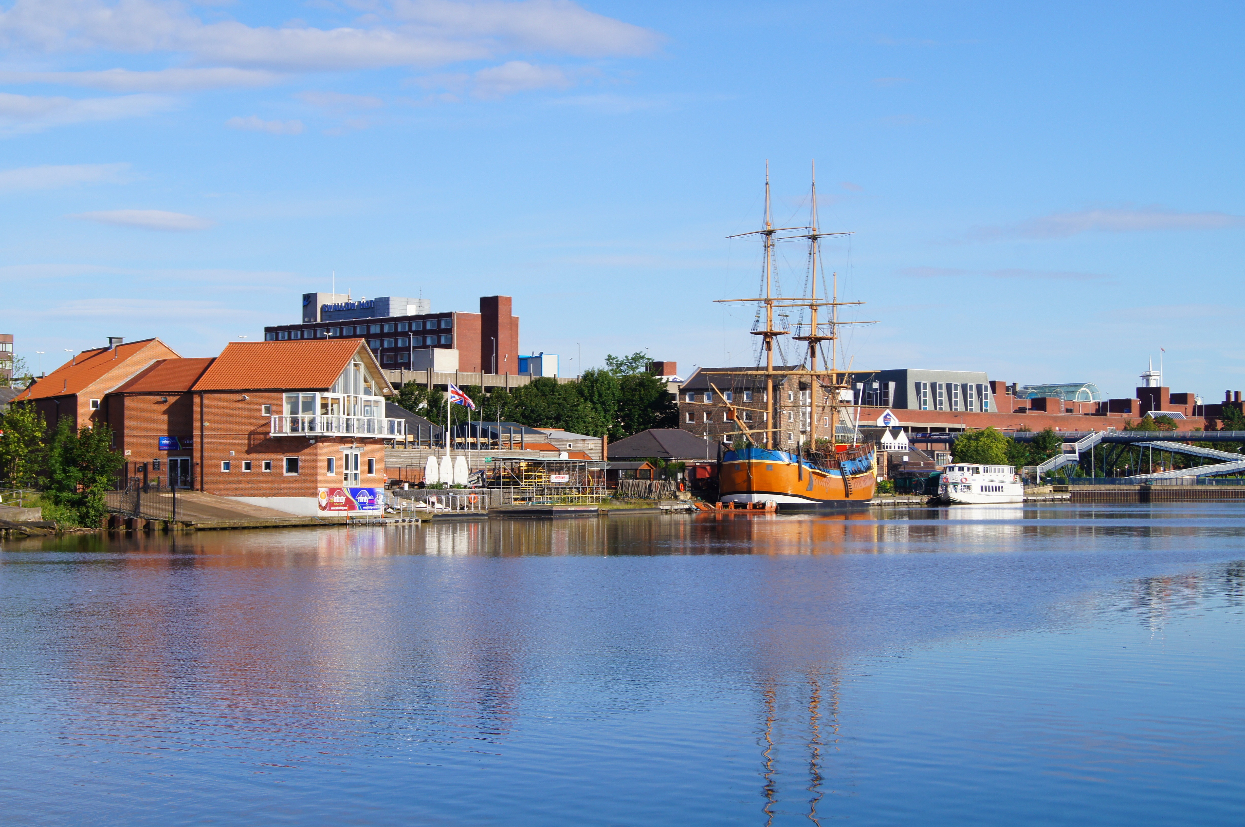 Castlegate Quay viewed from Teesdale Park on the south bank of the River Tees. The replica of Captain James Cook's tall ship, HM Bark Endeavour and the Teesside Princess river cruise boat are visible at the quayside.